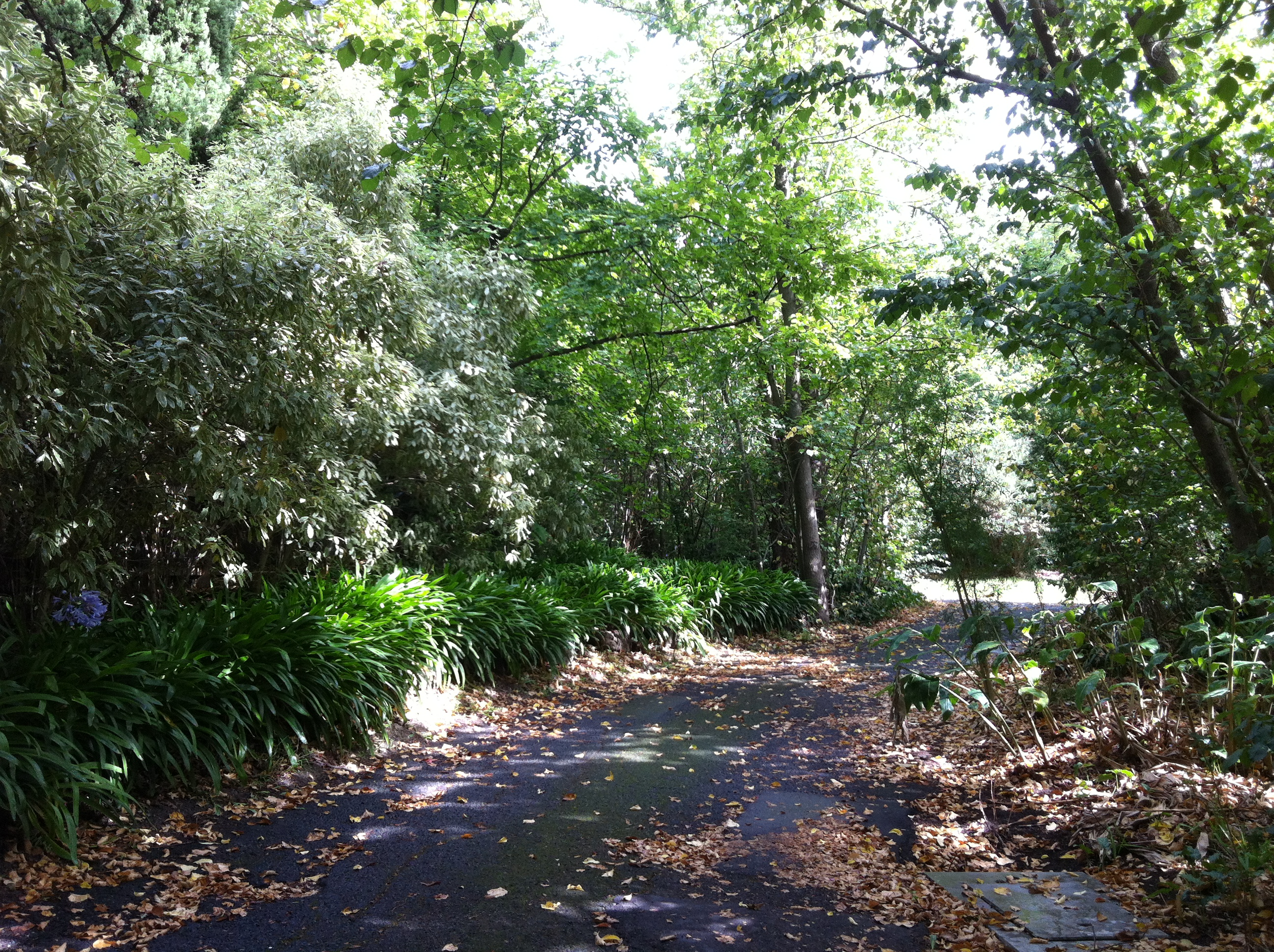 The leafy driveway of Chadwick house in Autumn.